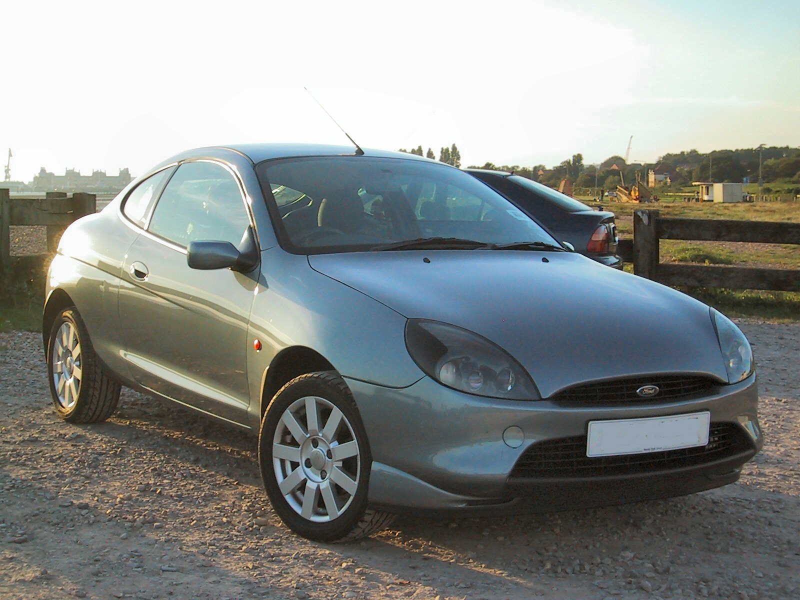 Ford Puma